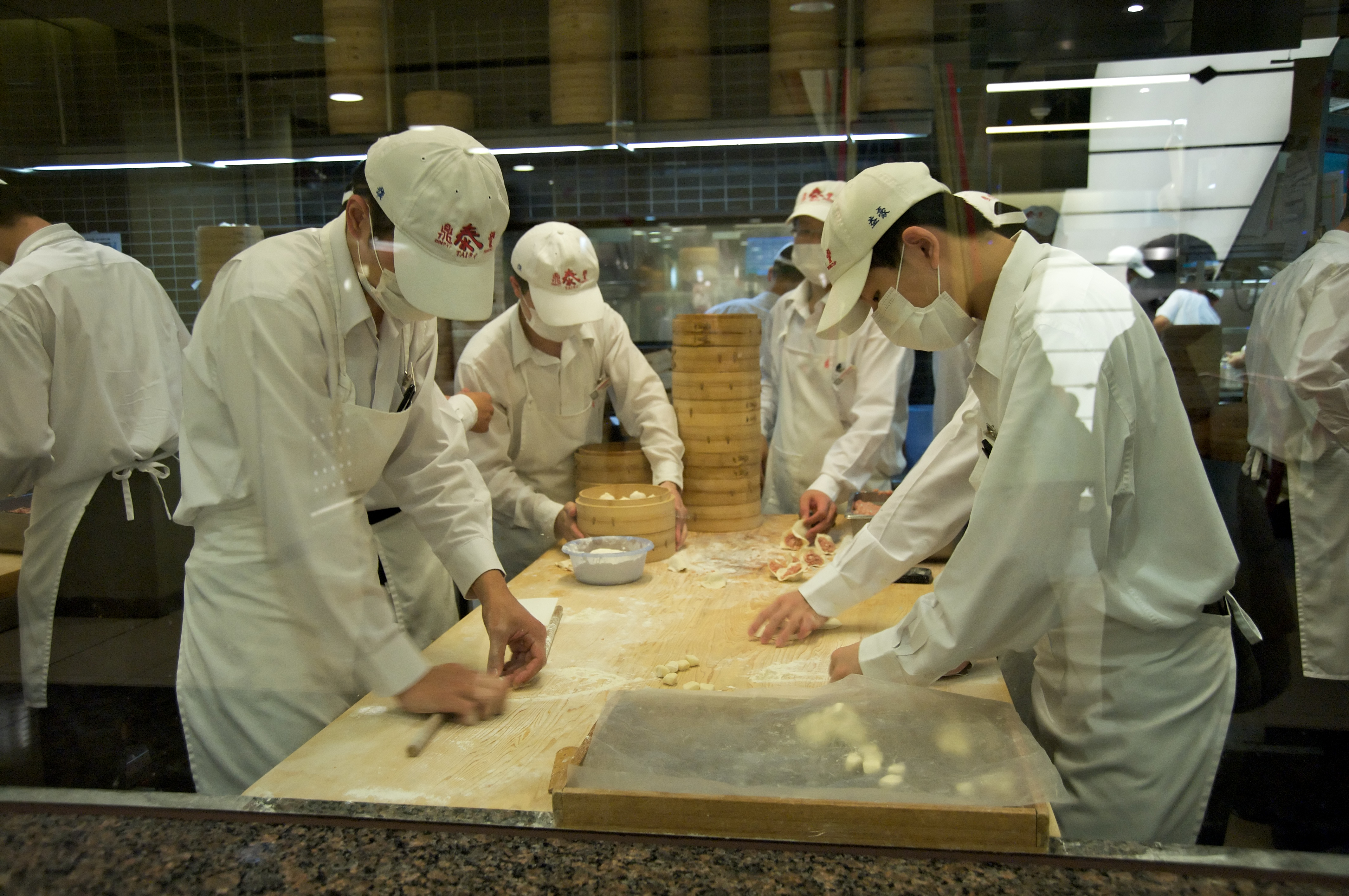 DinTaiFung Dumpling House at Pacific Sogo ZhongXiao Store